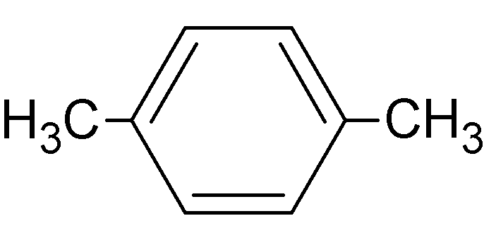 Chemical structure of para-xylene.